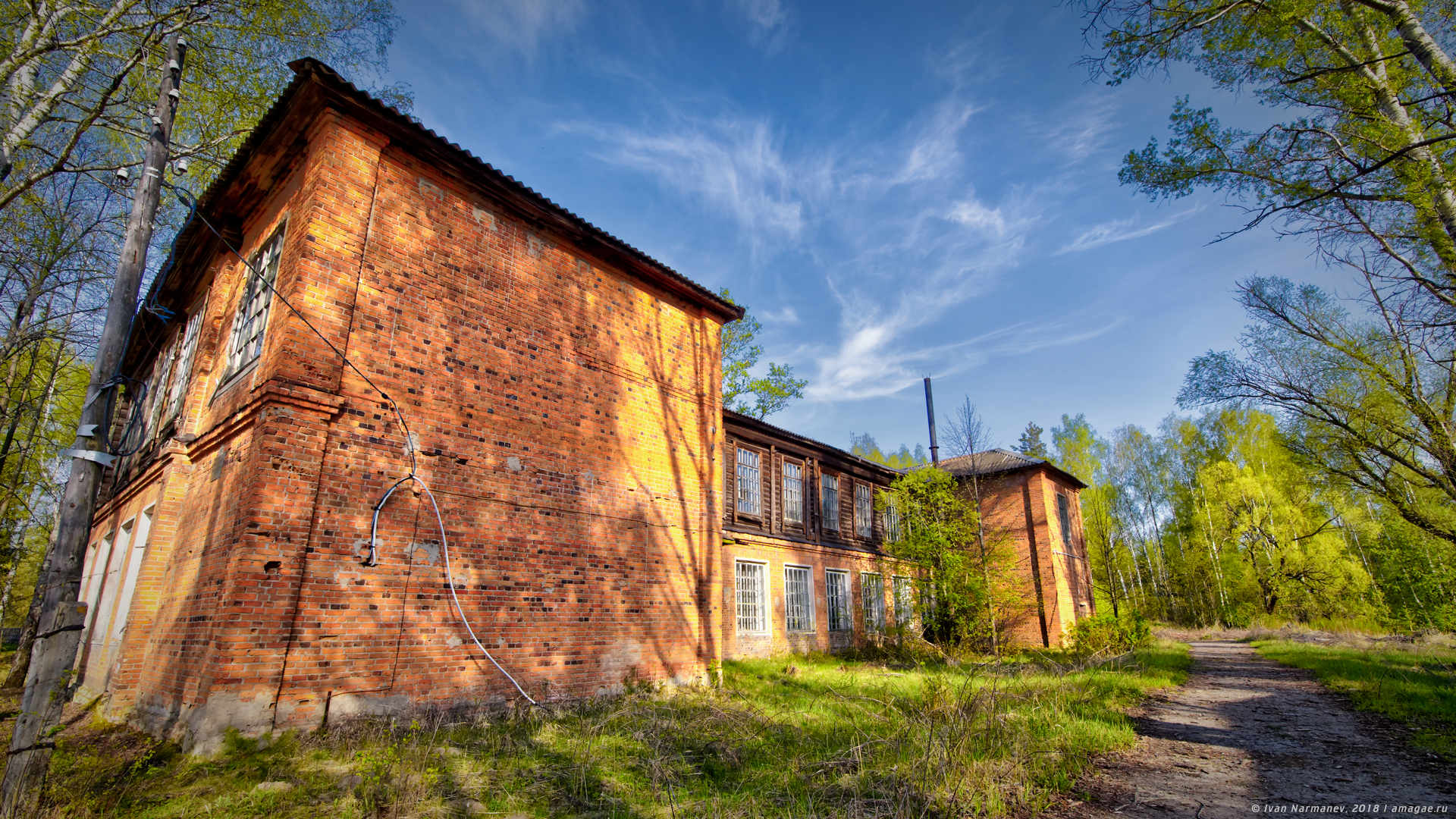 Krasnoye village 8-years school (ruined)